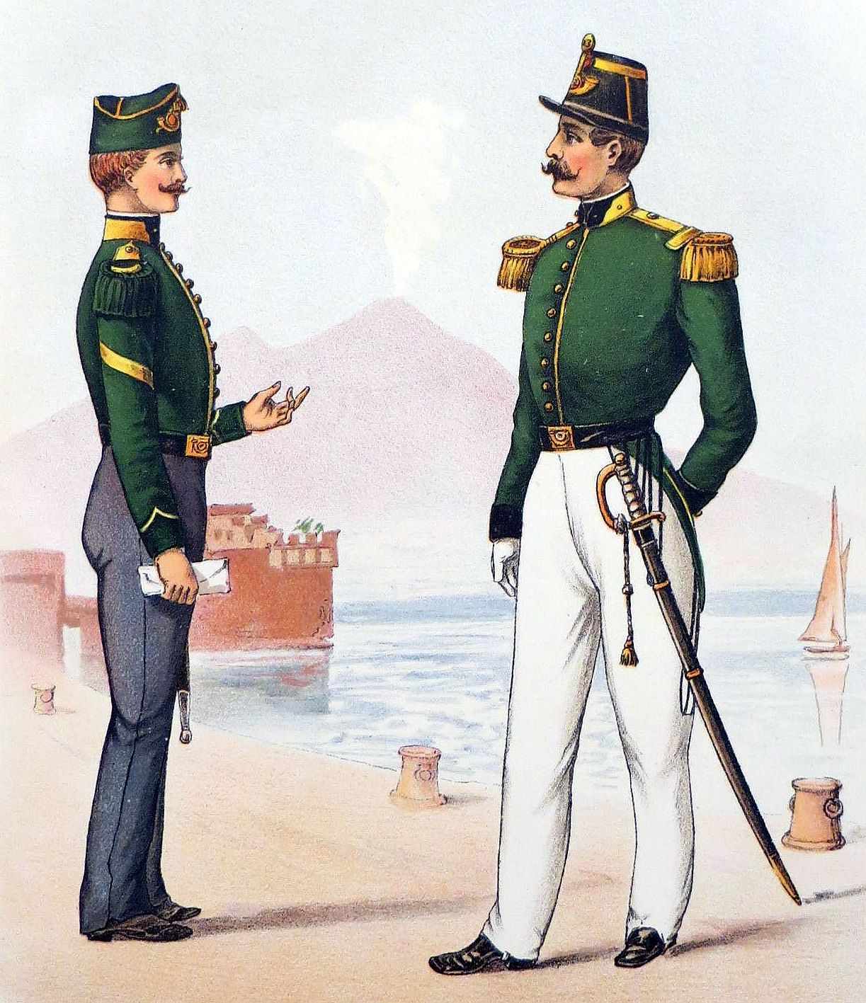 Uniform of the 13. Rangerbatallion von Mechel in Naples 1850-1859 Fourier in fatigues wintertime Captain in full dress summertime